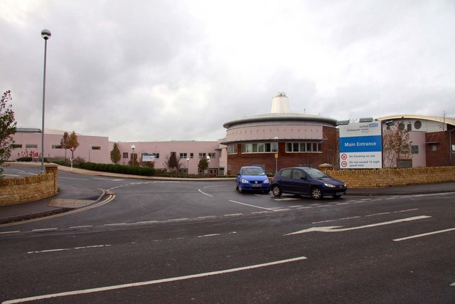 The Nuffield Orthopaedic Hospital in Headington, Oxford, England